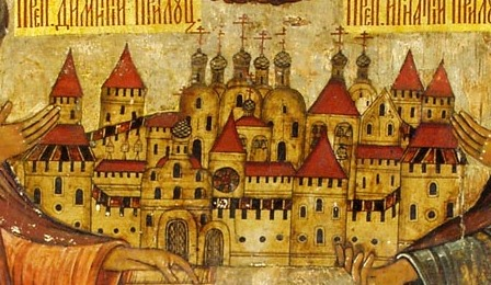 Spaso-Prilutsky Monastery, view from a 17 century Vologda icon of Dimitry and Ignaty Prilutsky.